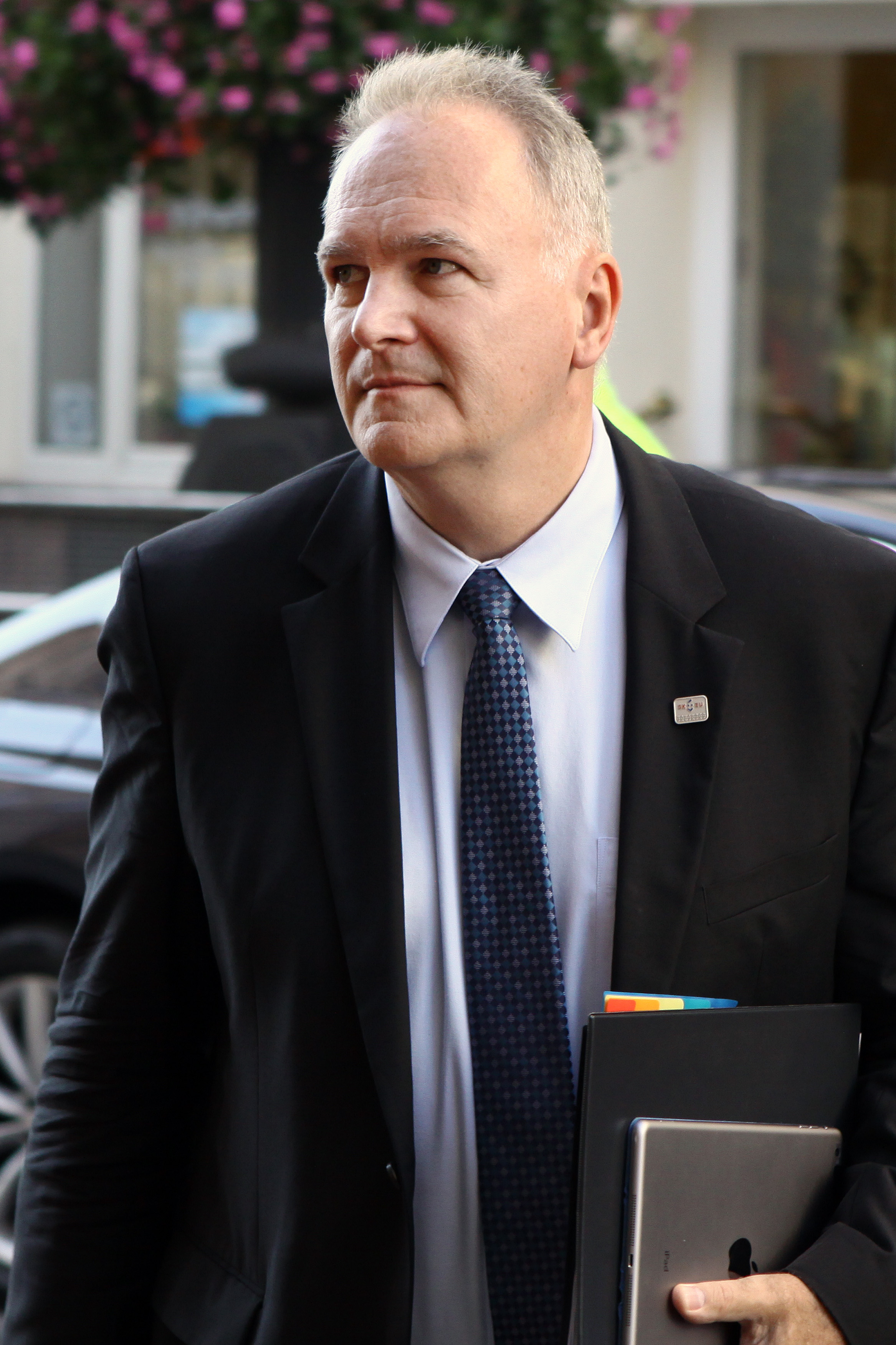 Hungary, Mr. László Szabó, Deputy Minister and Parlamentary State Secretary Informal Meeting of Trade Ministers (Informal FAC-Trade) Photo: Andrej Klizan